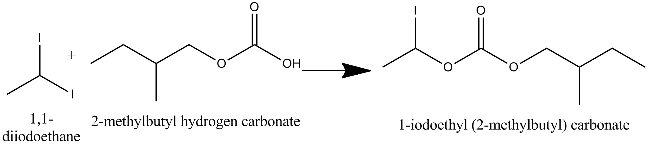 The example of application of 1,1-diiodoethane as a reactant in SN2 reaction created by ChemBioDraw